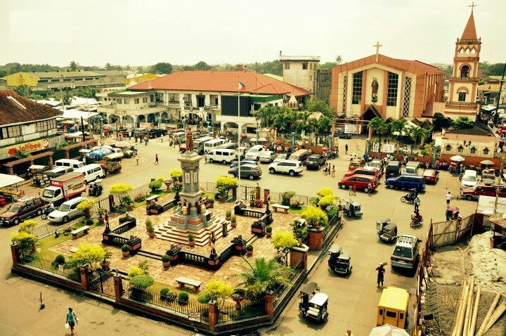 Plaza Rizal in Barangay Poblacion, Biñan City, Laguna Philippines.